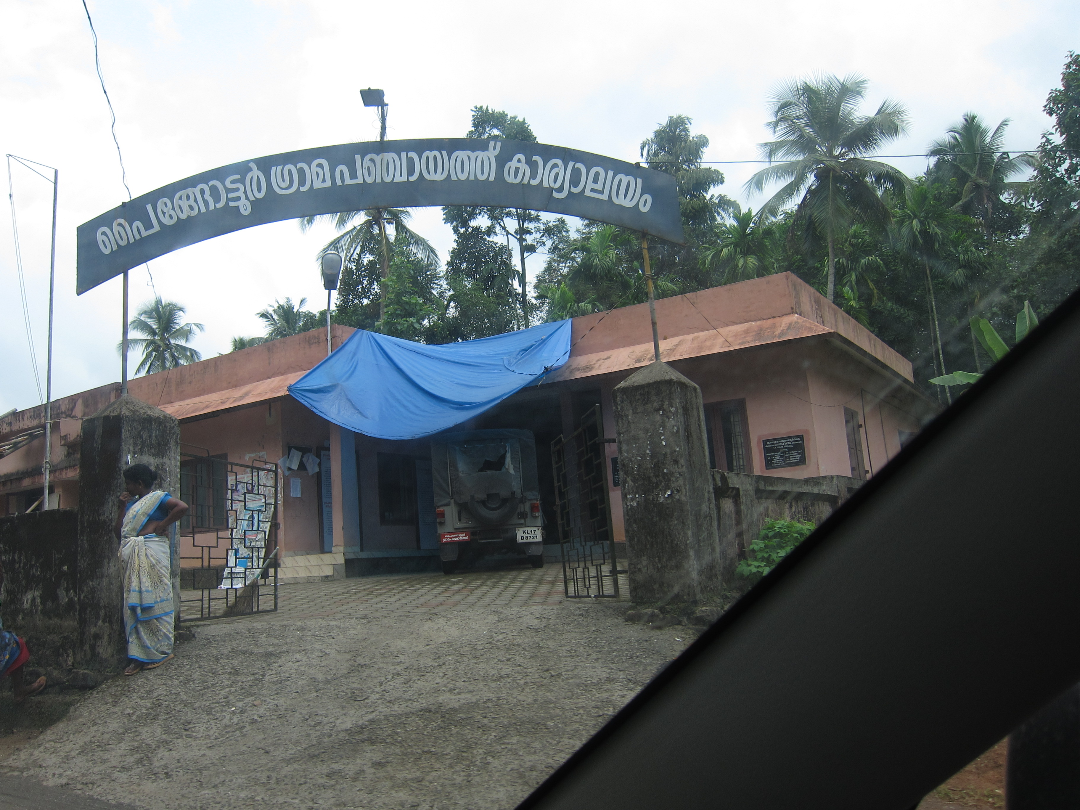 Paingottoor Grama Panchayath-പൈങ്കോട്ടൂർ ഗ്രാമ പഞ്ചായത്ത് Ernakulam District